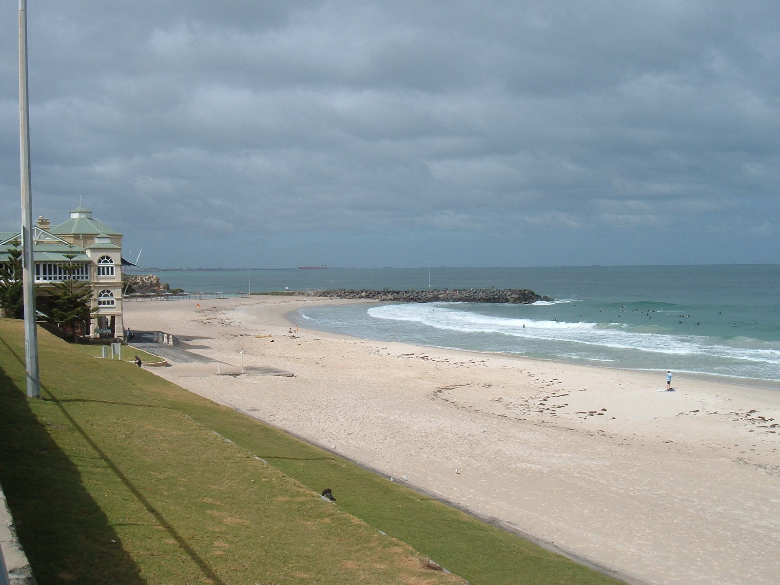 Cottesloe Beach